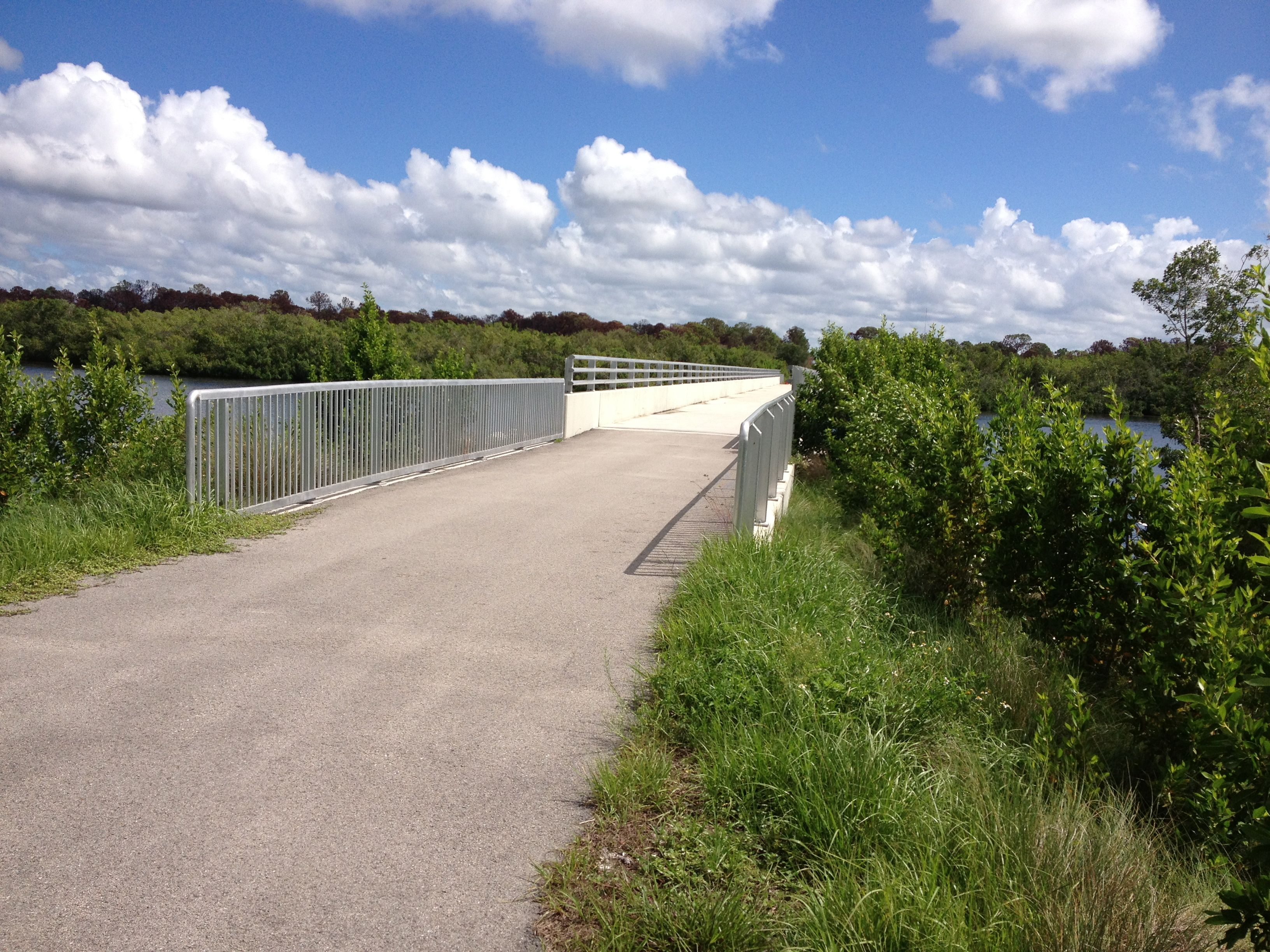 Cape Haze Pioneer Trail Bridge over Coral Creek